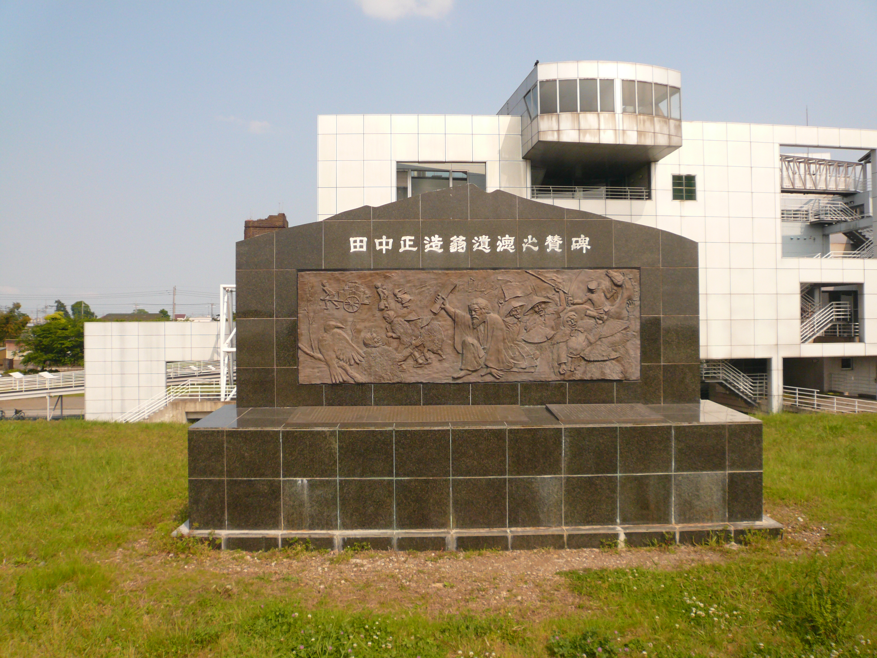 Tanaka Shozo, Koga, Ibaraki, Japan